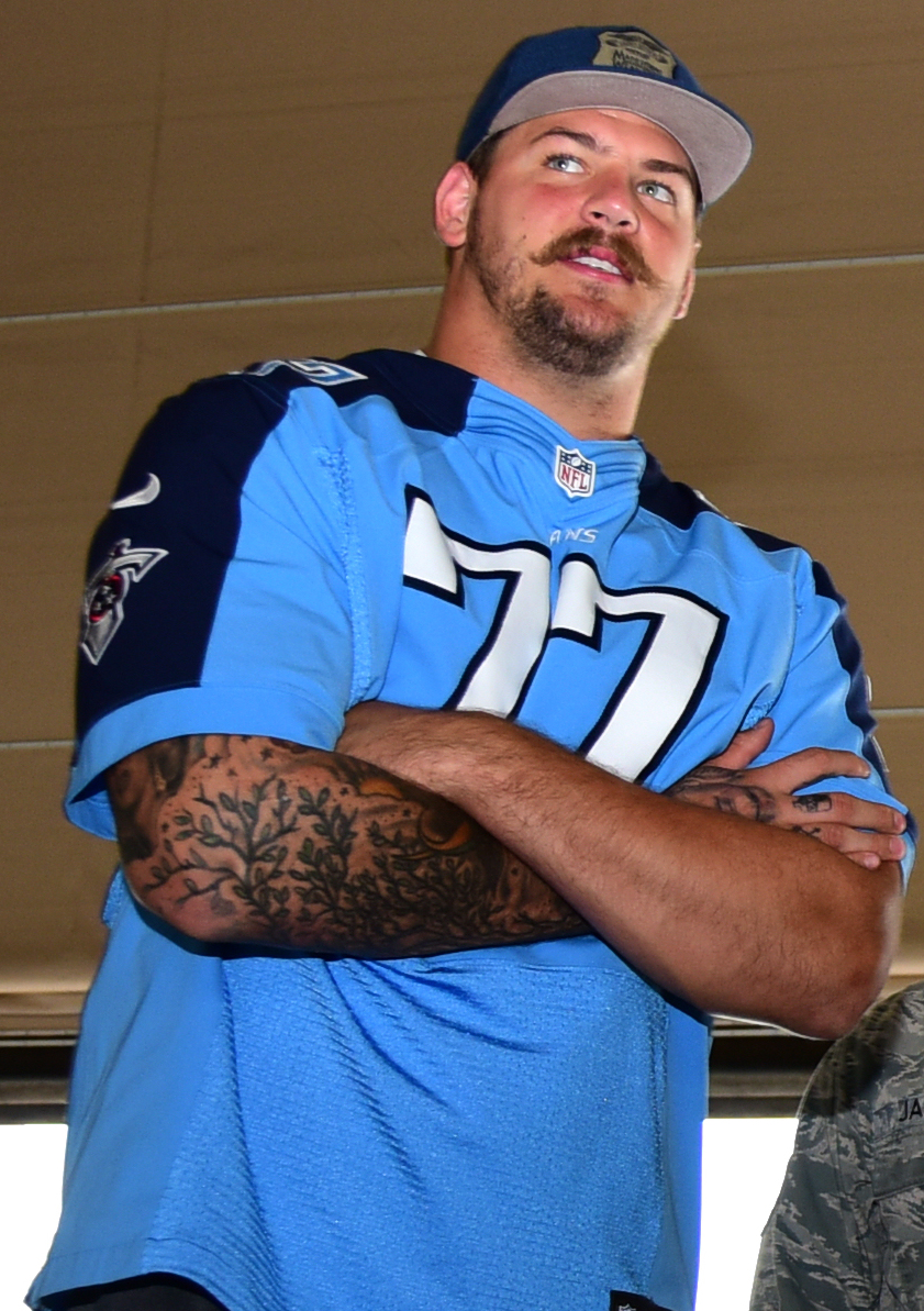 Tennessee Titans offensive tackle, Taylor Lewan, visits the 118 Wing Tennessee Air National Guard during drill weekend at Berry Field Air National Guard Base in Nashville, Tenn., April 30, 2016. The visit is part of the 2016 NFL draft coverage where selected members of the 118th read the draft pics for the 4th, 5th, 6th, and 7th rounds of the 2016-2017 season.